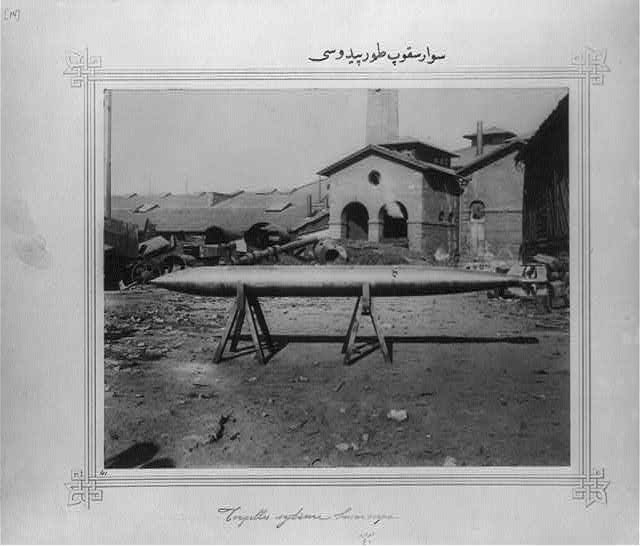 A torpedo used by Ottoman submarines Abdul Hamid and Abdulmecid. Above caption reads "Sivarskop Torpidosu" i.e. "A Schwartzkopf Torpedo", in reference to the manufacturer.